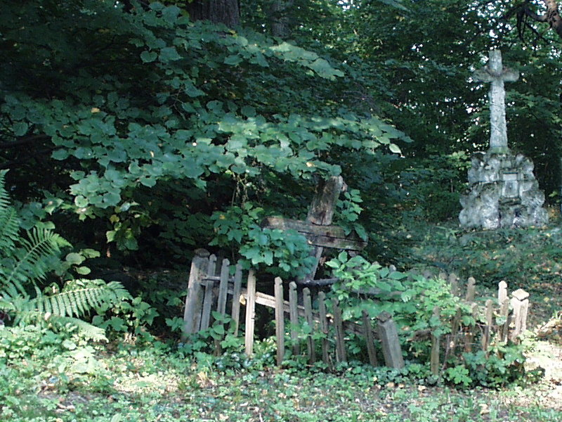 Nowe Sady (Poland), Greek Catholic church, cemetery